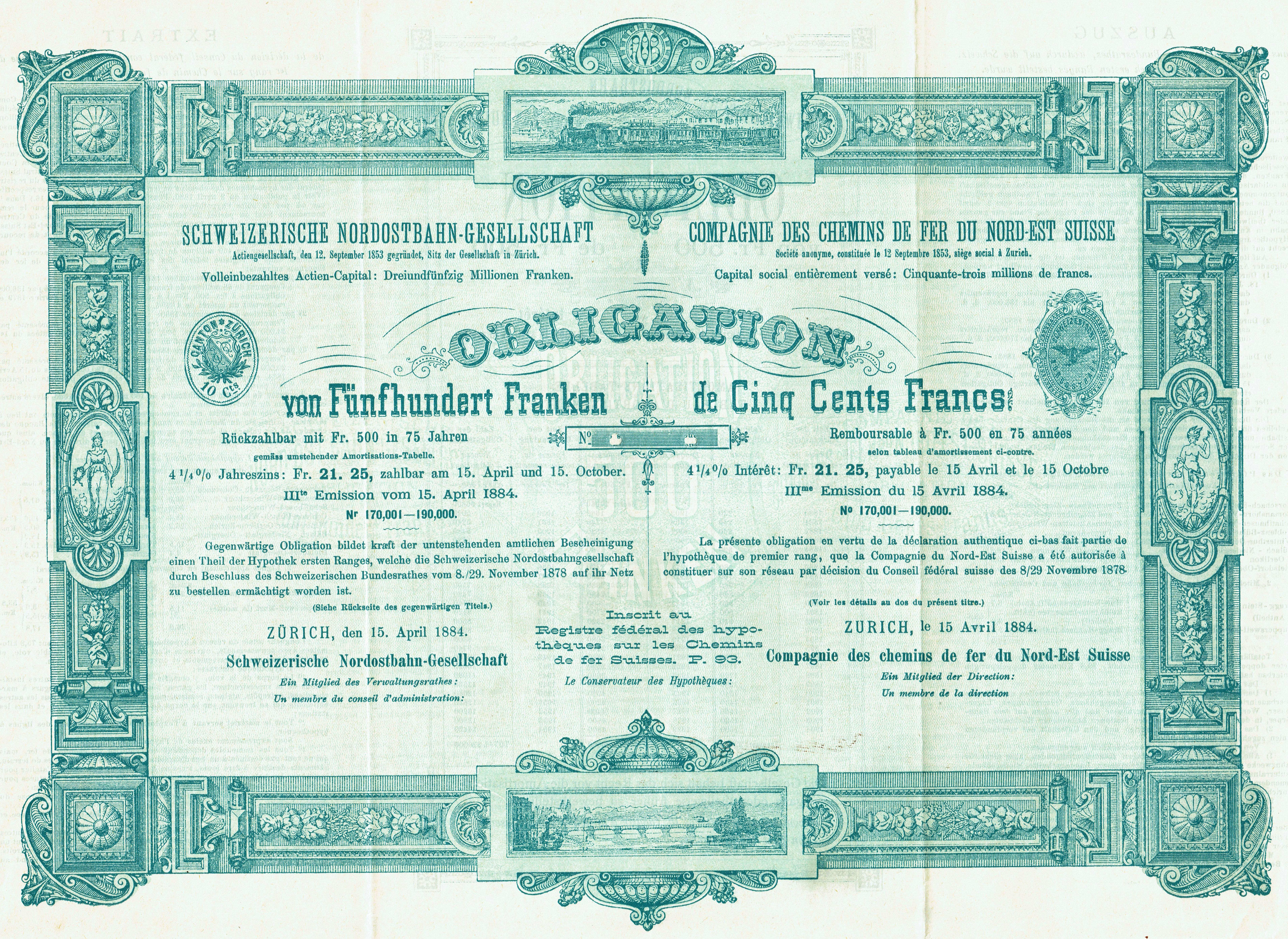 Bond of the Schweizerische Nordostbahn-Gesellschaft, issued 15. April 1884